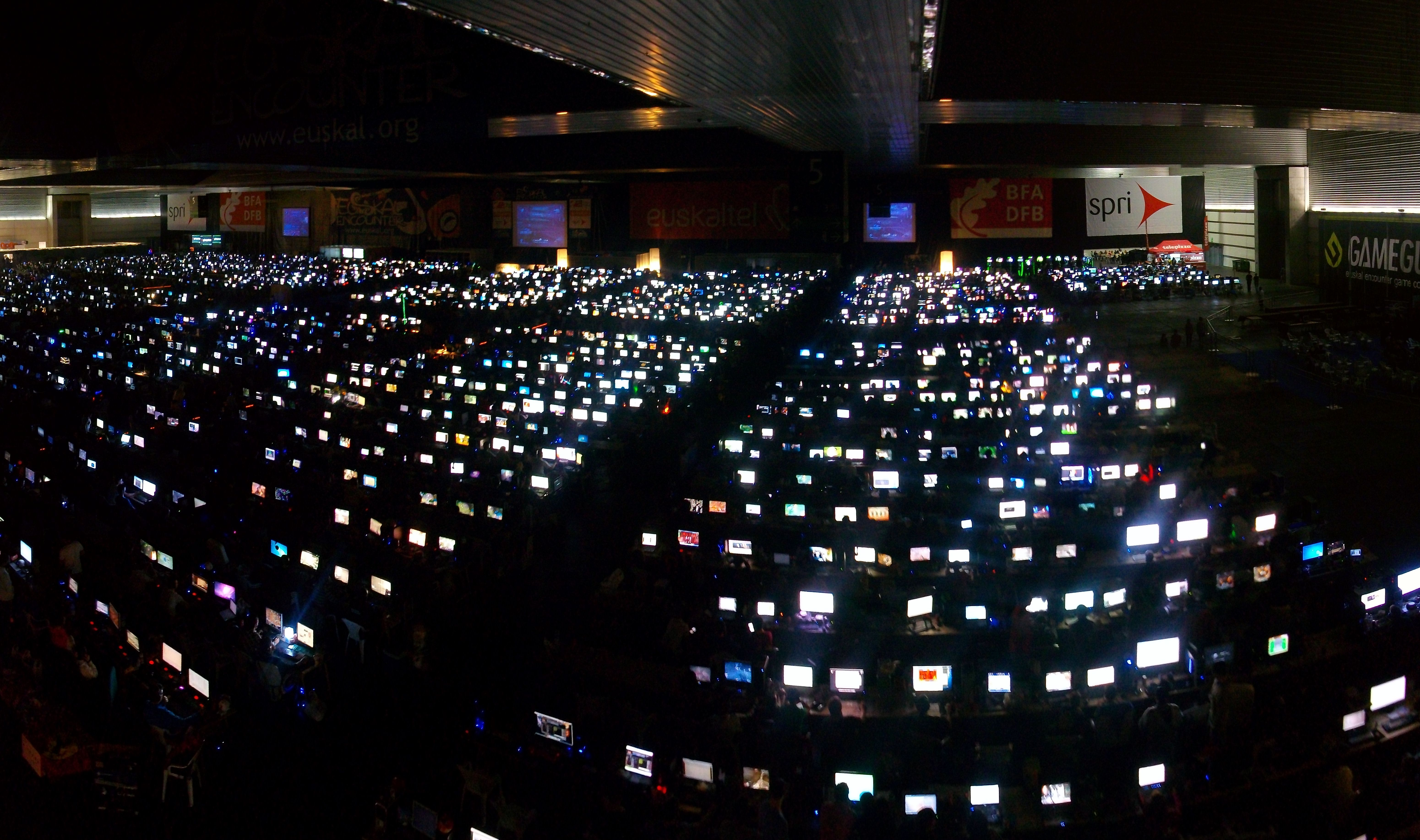 Panoramic image of Euskal Encounter 19 from the right corner